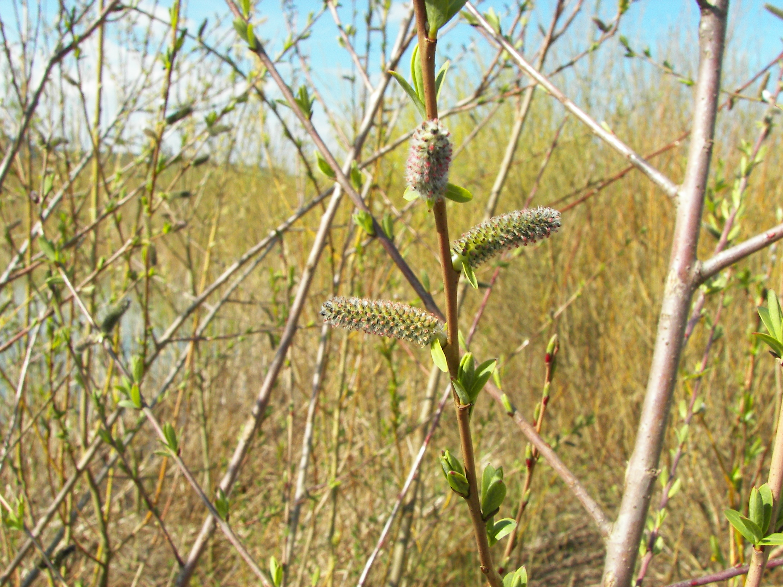 Purple Willow (Salix purpurea), female catkins, Location: Lahntal-Goßfelden, Hesse, Germany